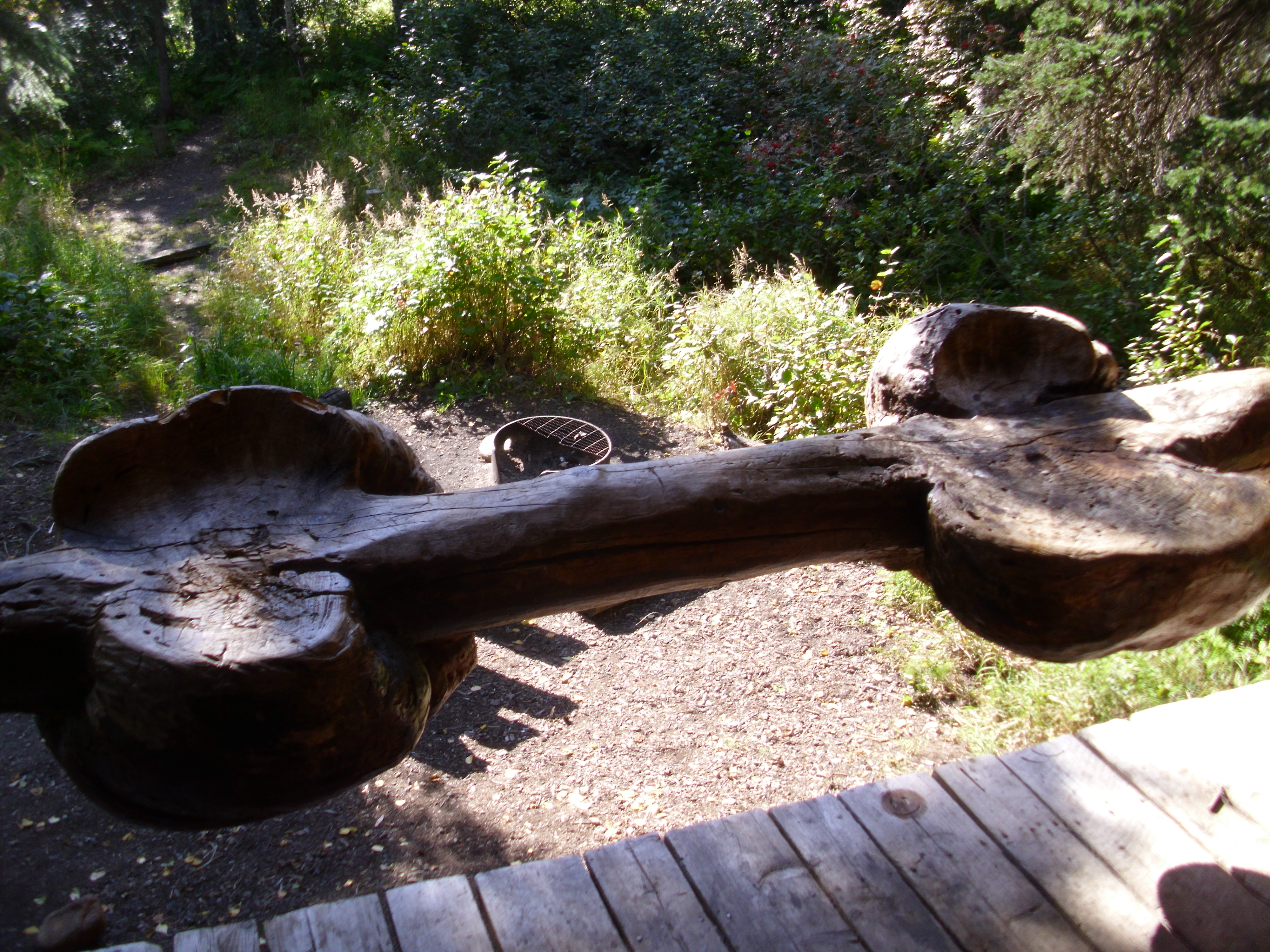 Porch railing with built-in seats made of carved burls, Byers Lake, Denali State Park, Alaska